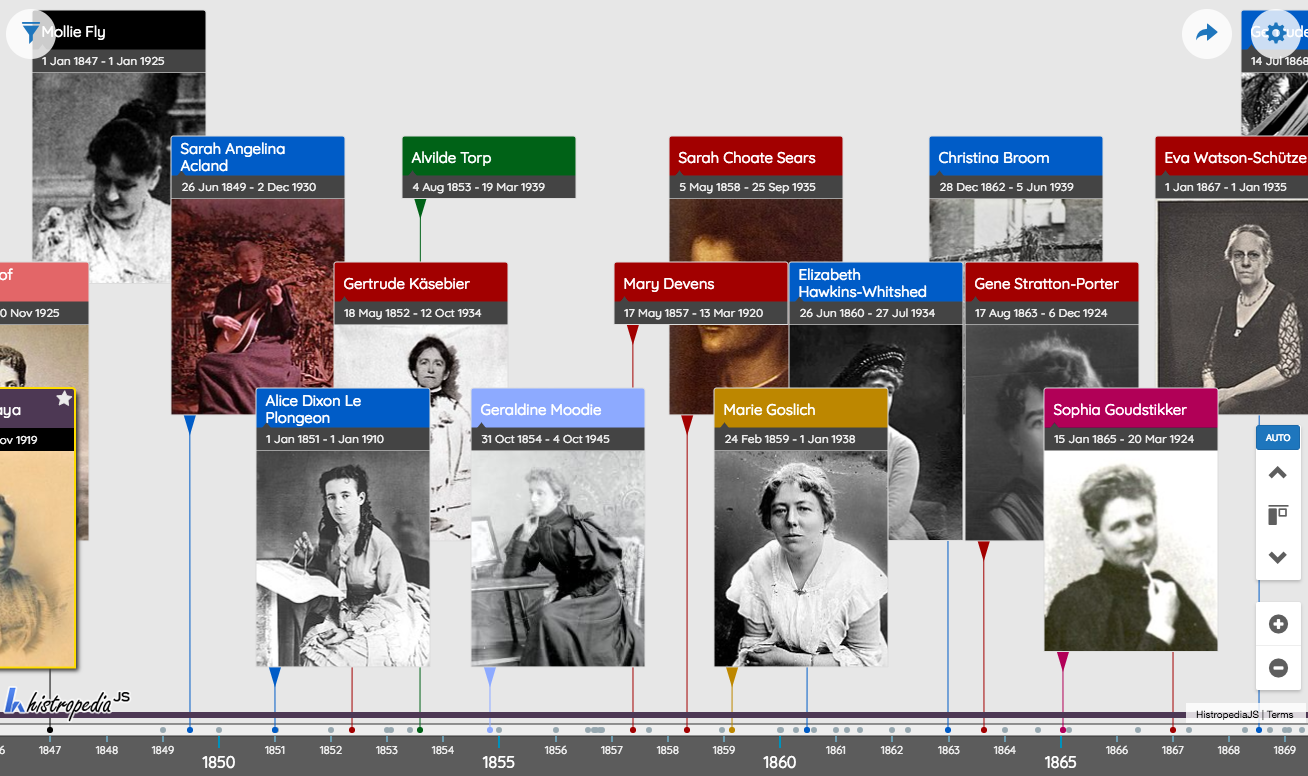 A timeline of early female photographers in Histropedia, based on a Wikidata query.